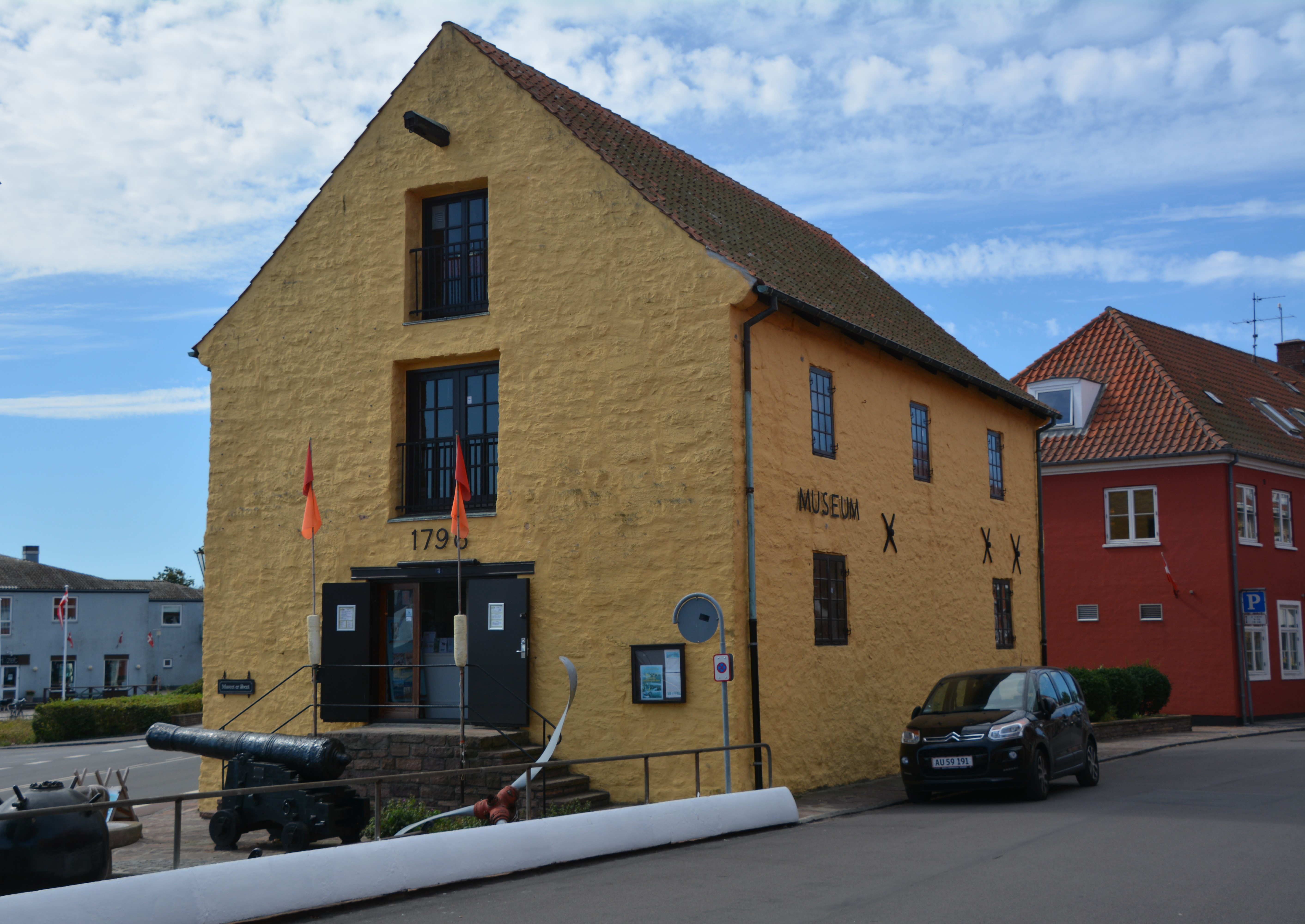 Nexö museum